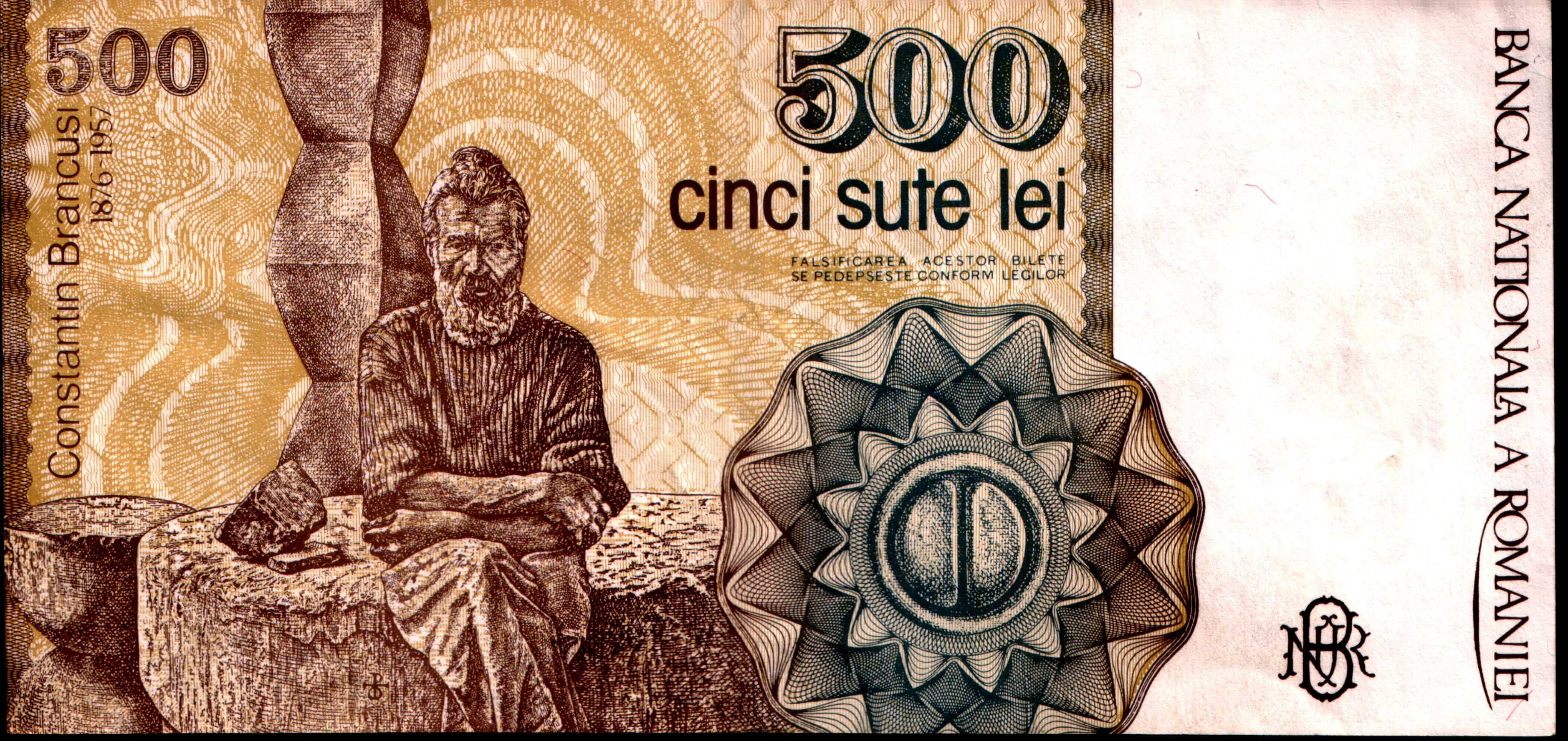 500 Romanian leu from 1991 - reverse